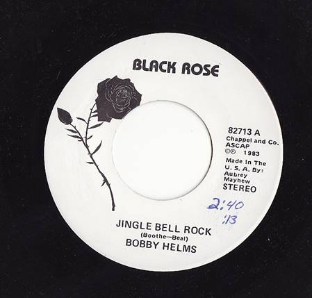 Jingle Bell Rock by Bobby Helms, Black Rose 1983.